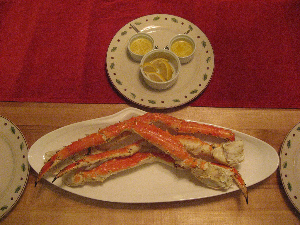 Crablegs, drawn butter and lemon